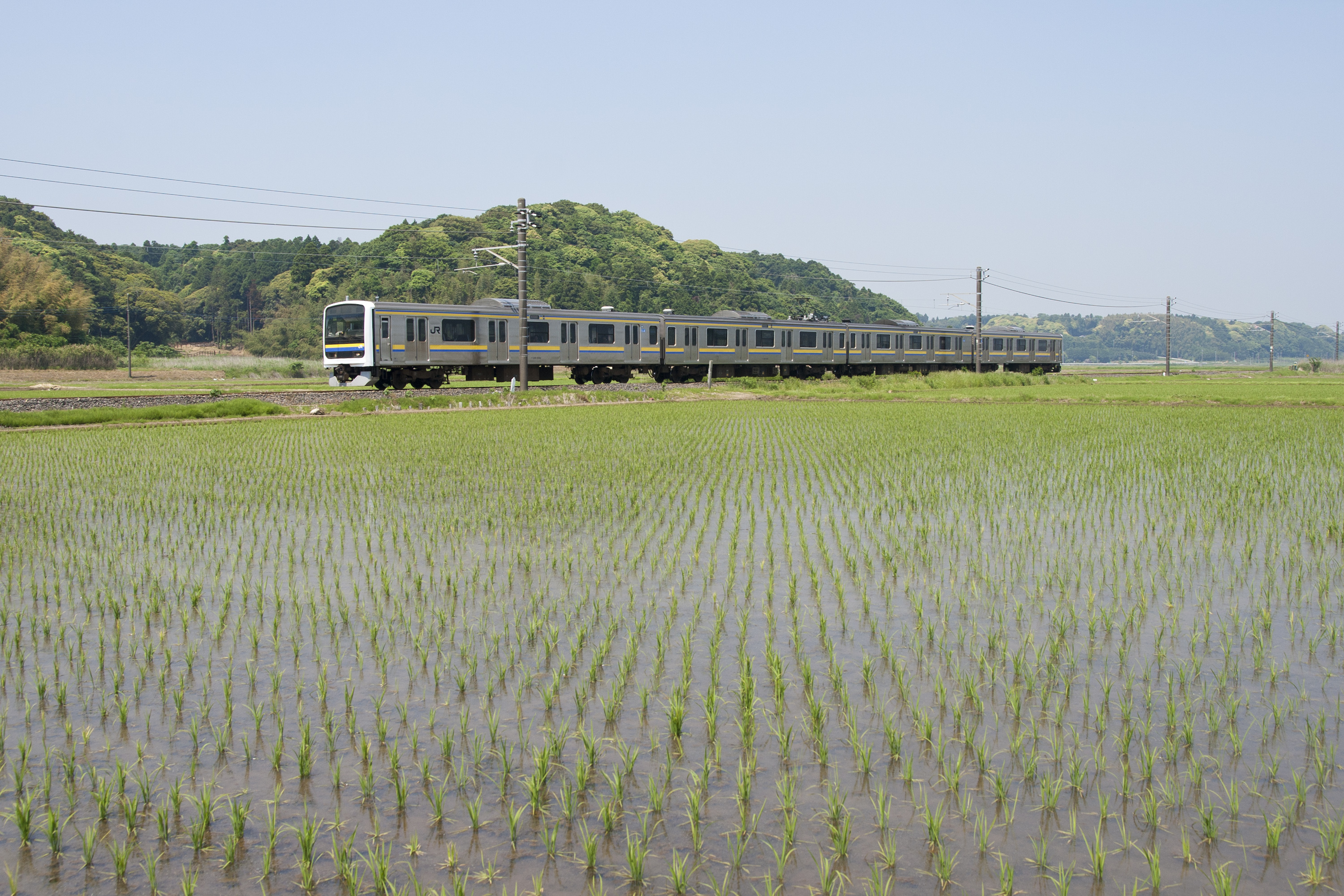 A JR East 209 series EMU train on the Narita Line in Katori, Chiba Prefecture, Japan